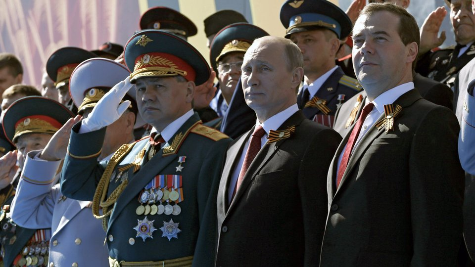 Sergey Shoigu, Vladimir Putin and Dmitry Medvedev at the military parade marking the 69th anniversary of Victory in the Great Patriotic War.